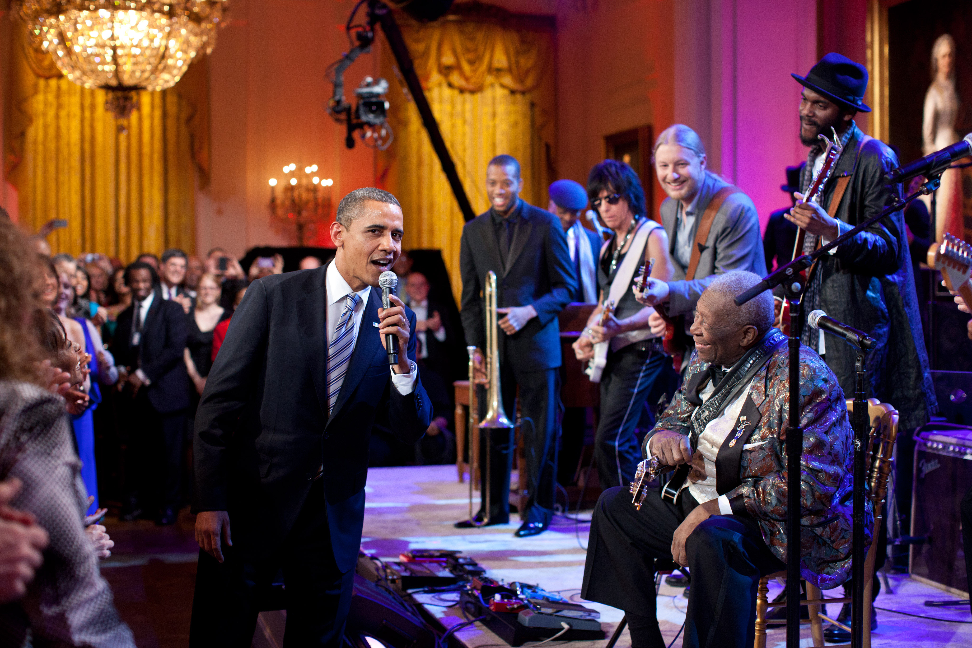 United States President Barack Obama joins in singing "Sweet Home Chicago" during the In Performance at the White House: Red, White and Blues concert for the Black History Month celebration of blues music in the East Room of the White House on 21 February 2012. Participants include, from left: Troy "Trombone Shorty" Andrews, Jeff Beck, Derek Trucks, B.B. King, and Gary Clark, Jr.